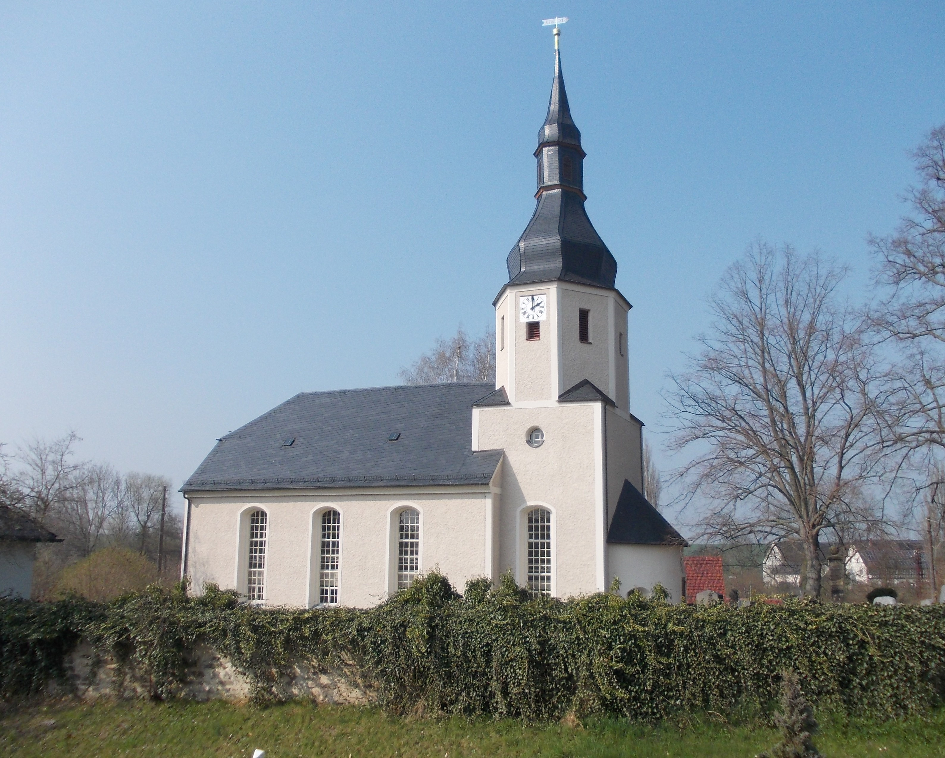 Tettau church (Schönberg, Zwickau district, Saxony)